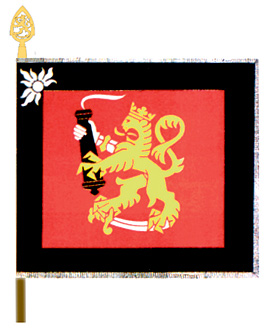 Colour of the Artillery Brigade (Finland)